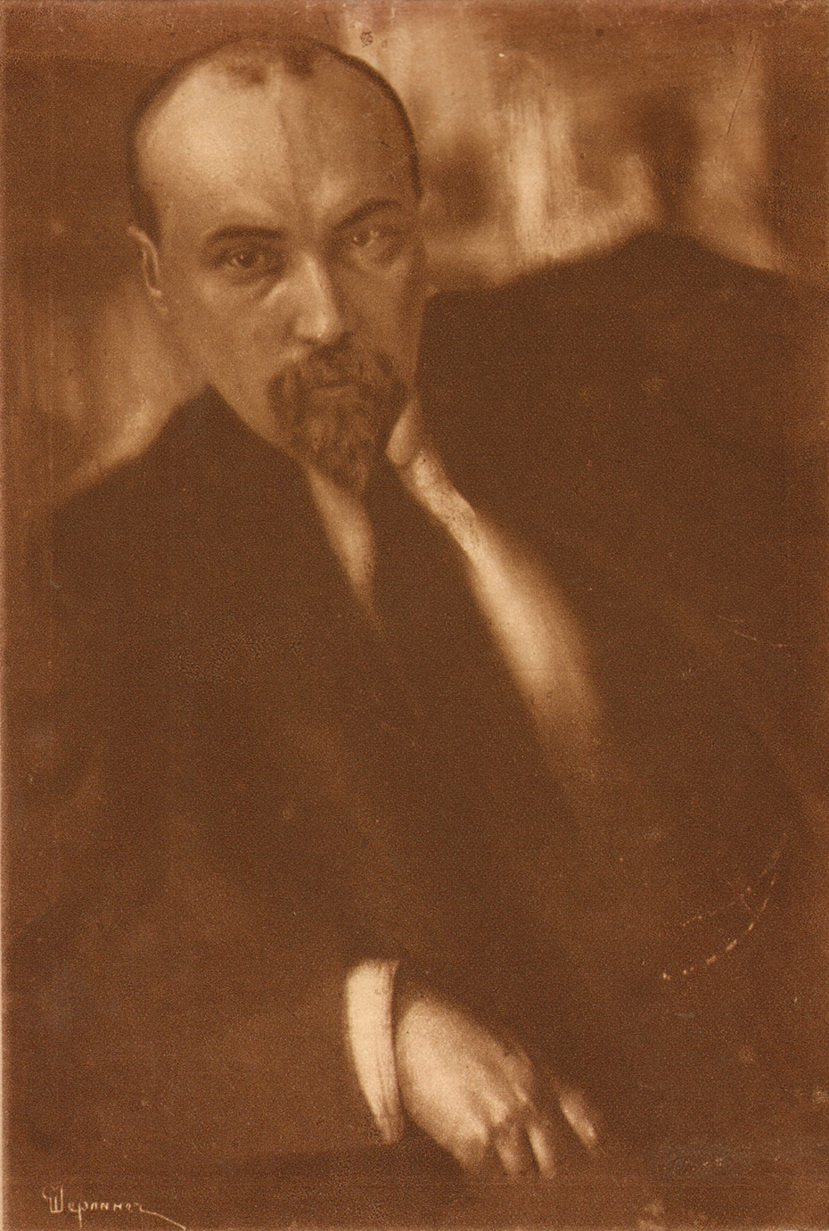 Miron Sherling Abramovich (1880-1958)/ Portrait I. Roerich/ 1916/ 21 X 14 cm.